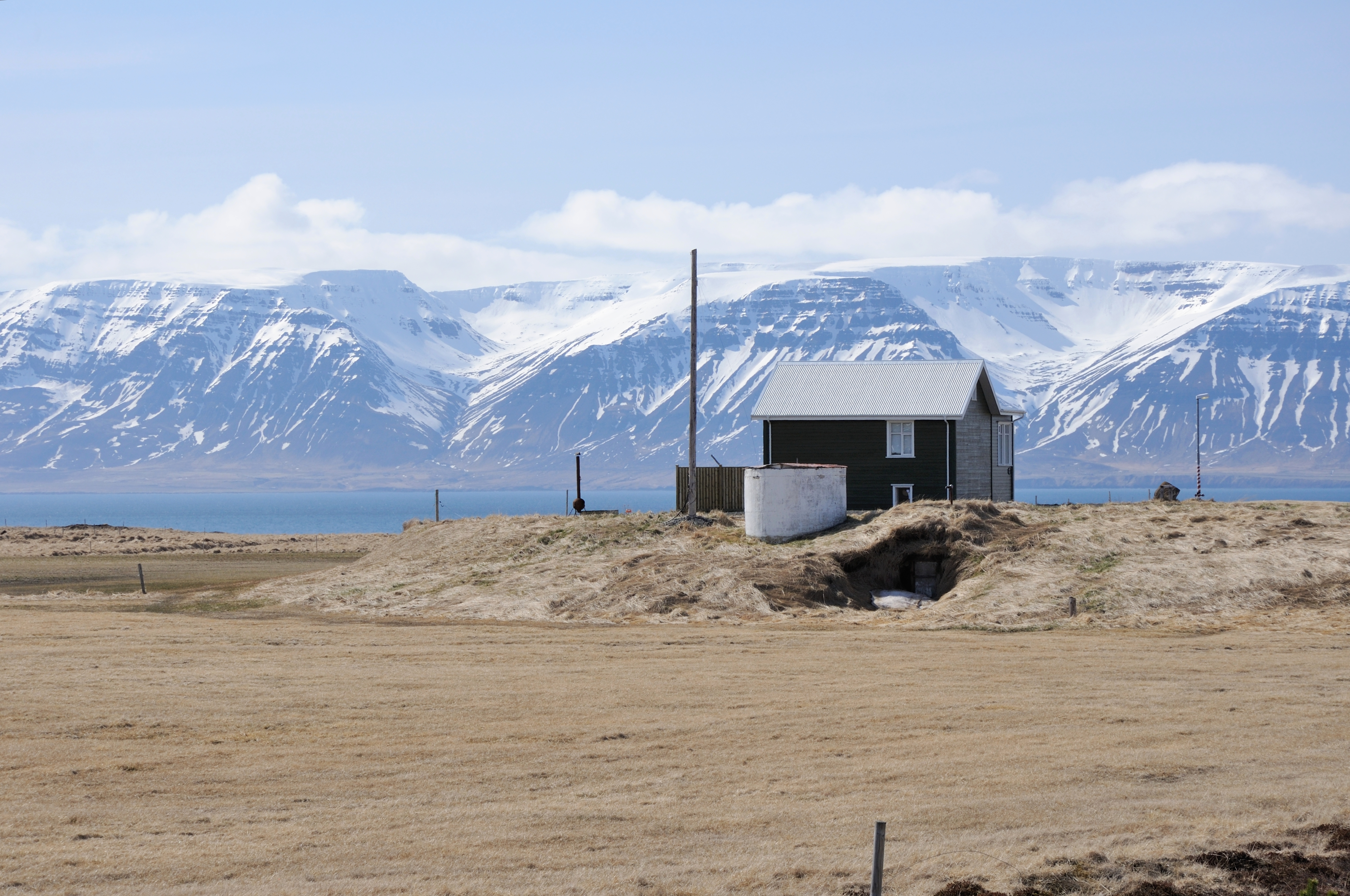 Iceland, impressions along road 76